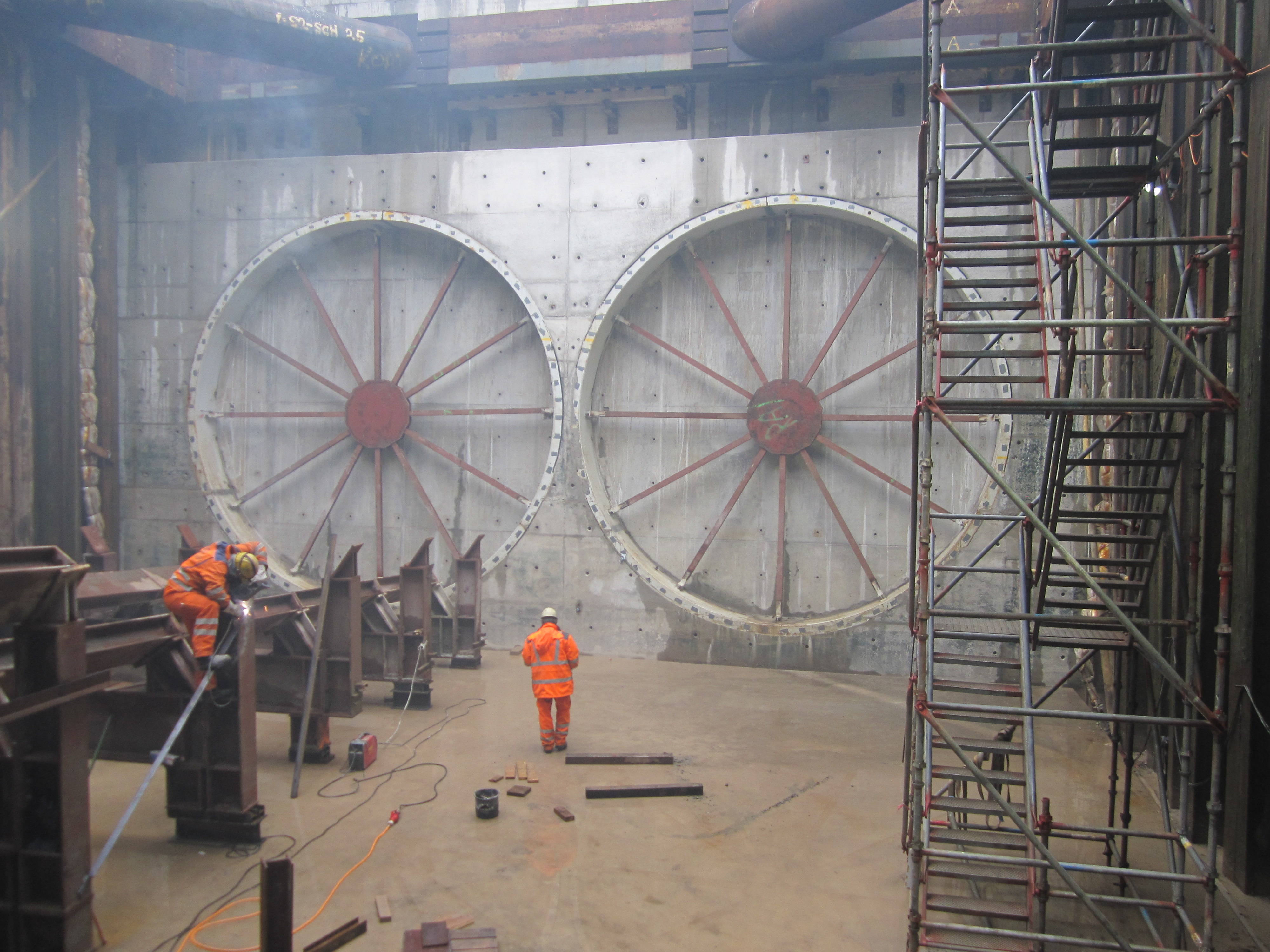 Starting shaft for the tunnelling machines (for the Amsterdam North/South underground metro line).